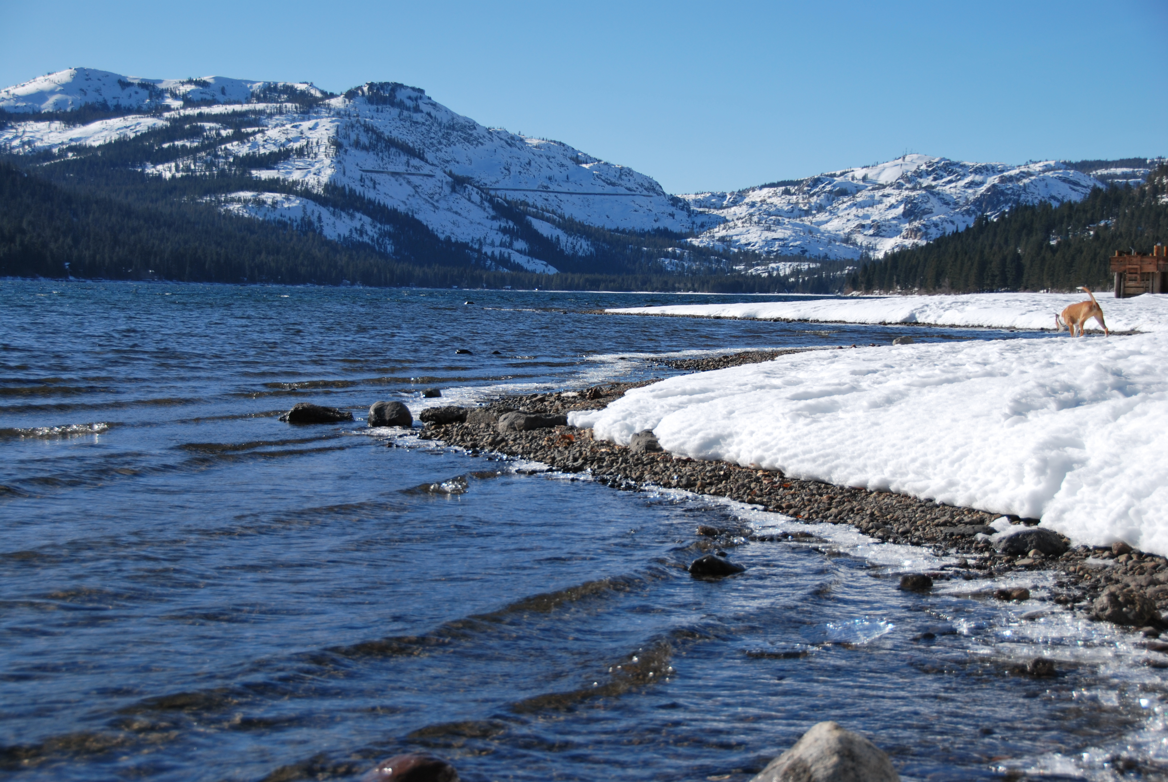 Donner Lake, standing on the North East shore looking towards Donner Pass and Sugar Bowl Ski Resort.